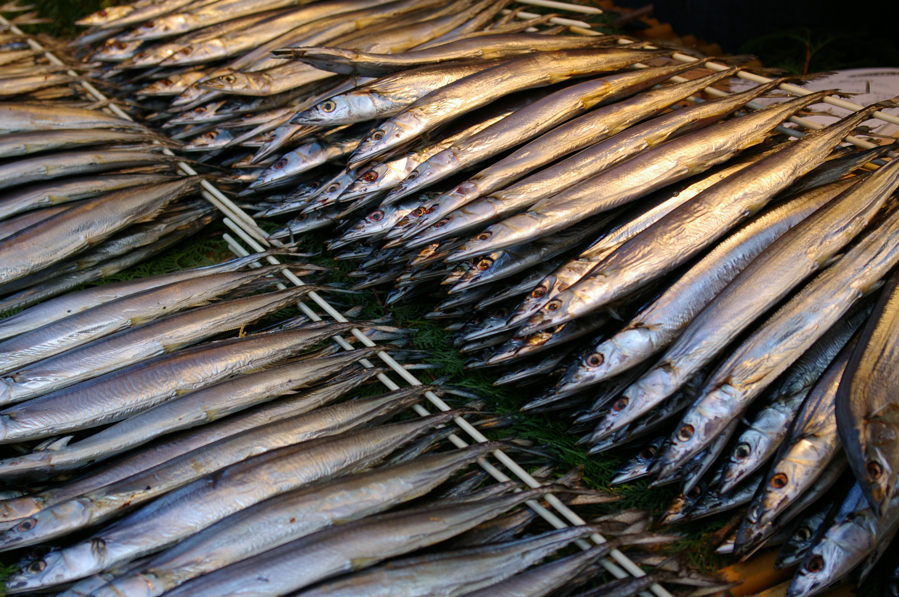 Pacific saury dried overnight